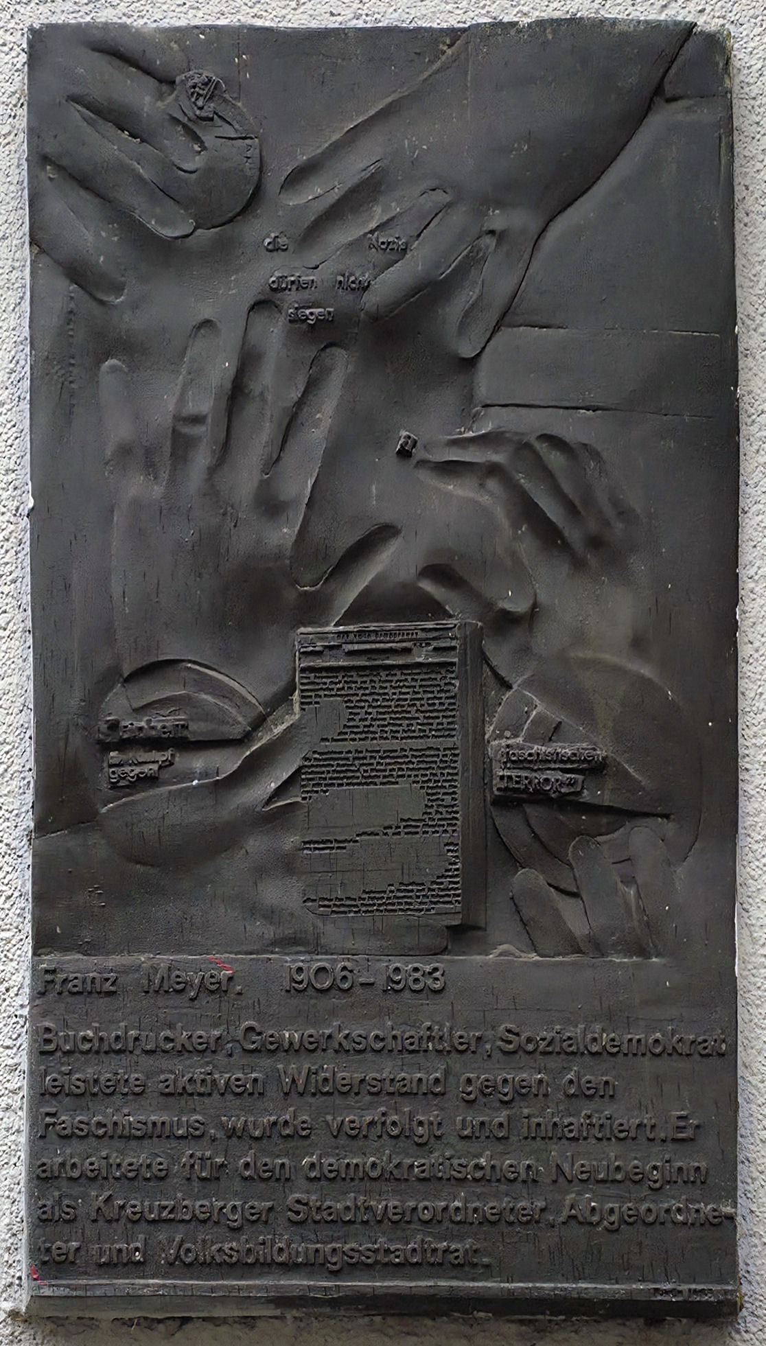 Memorial plaque, Franz Karl Meyer, Dieffenbachstr 55, Berlin-Kreuzberg, Germany Koordinate:52°29′33″N 13°25′4″E / 52.4925°N 13.41778°E